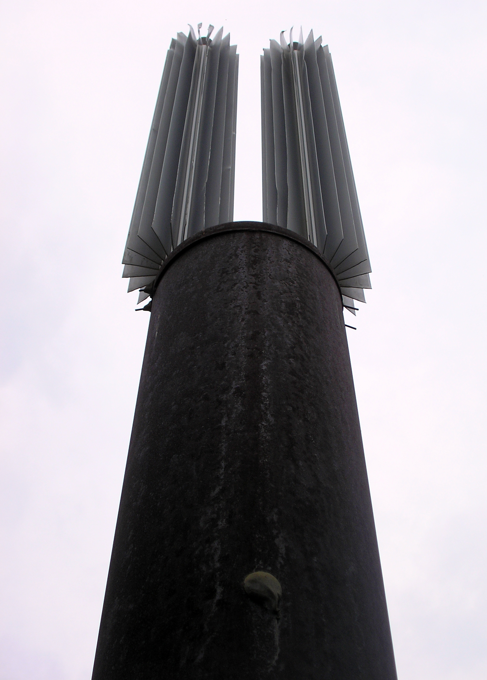 A vertical support member of the Trans-Alaska Pipeline is seen topped by two radiators connected to heat pipes.